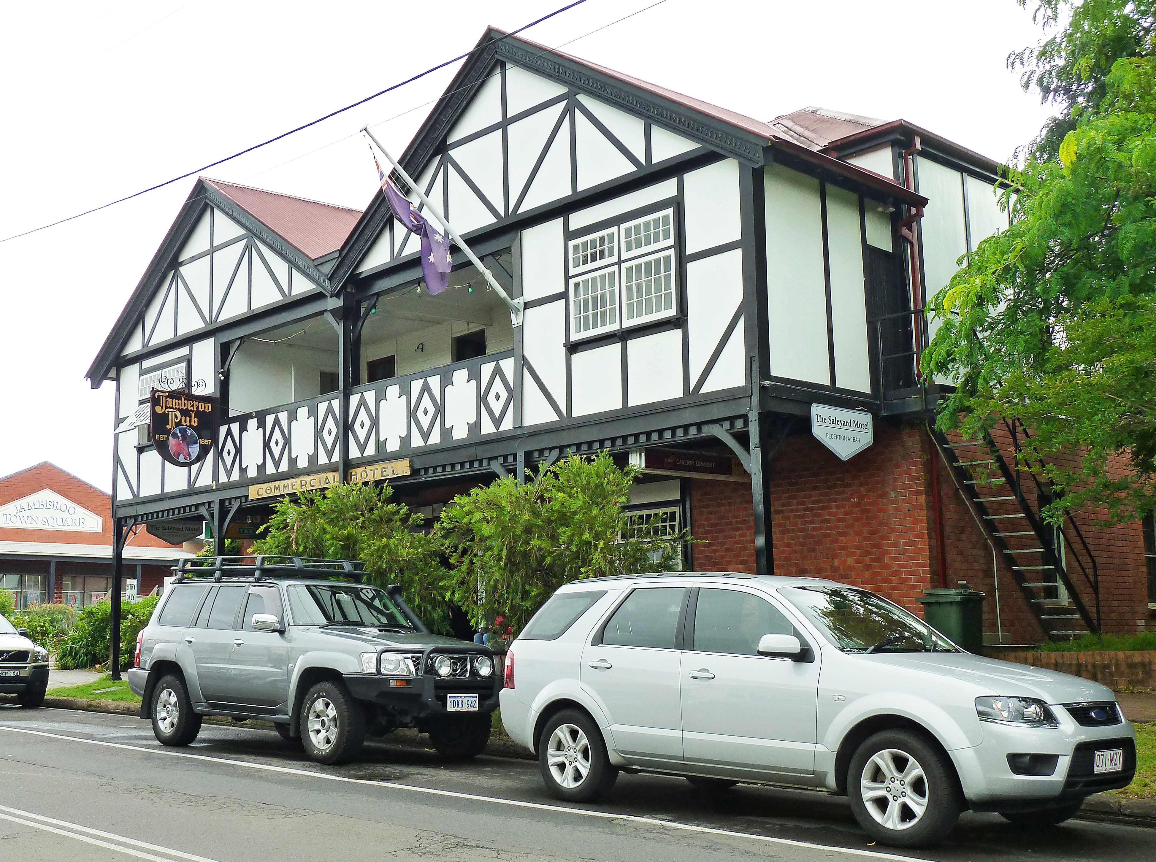 Jamberoo Pub, 12 Allowrie Street, Jamberoo, New South Wales, Australia.